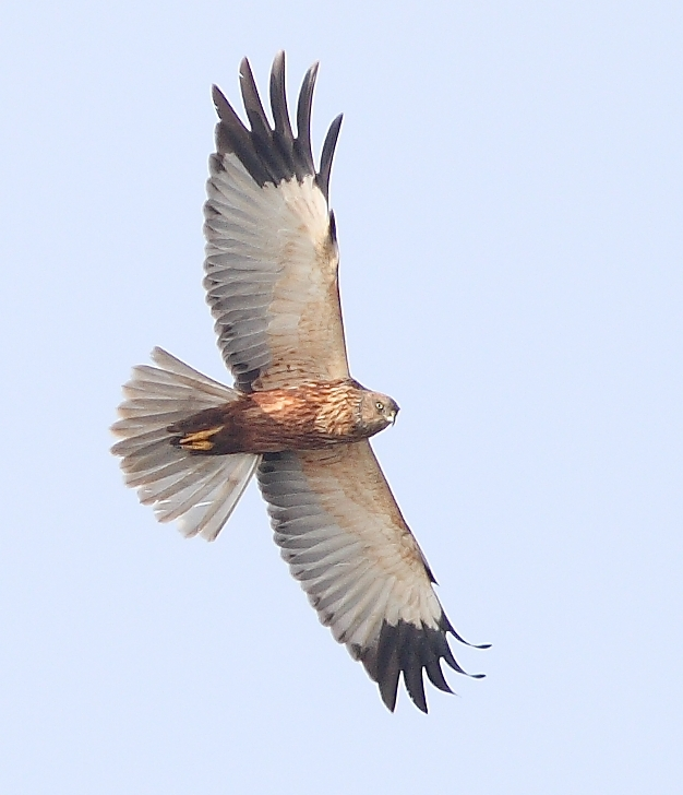 Western marsh harrier Halle (Saale) region f5.6 1/640 300.0mm ISO200